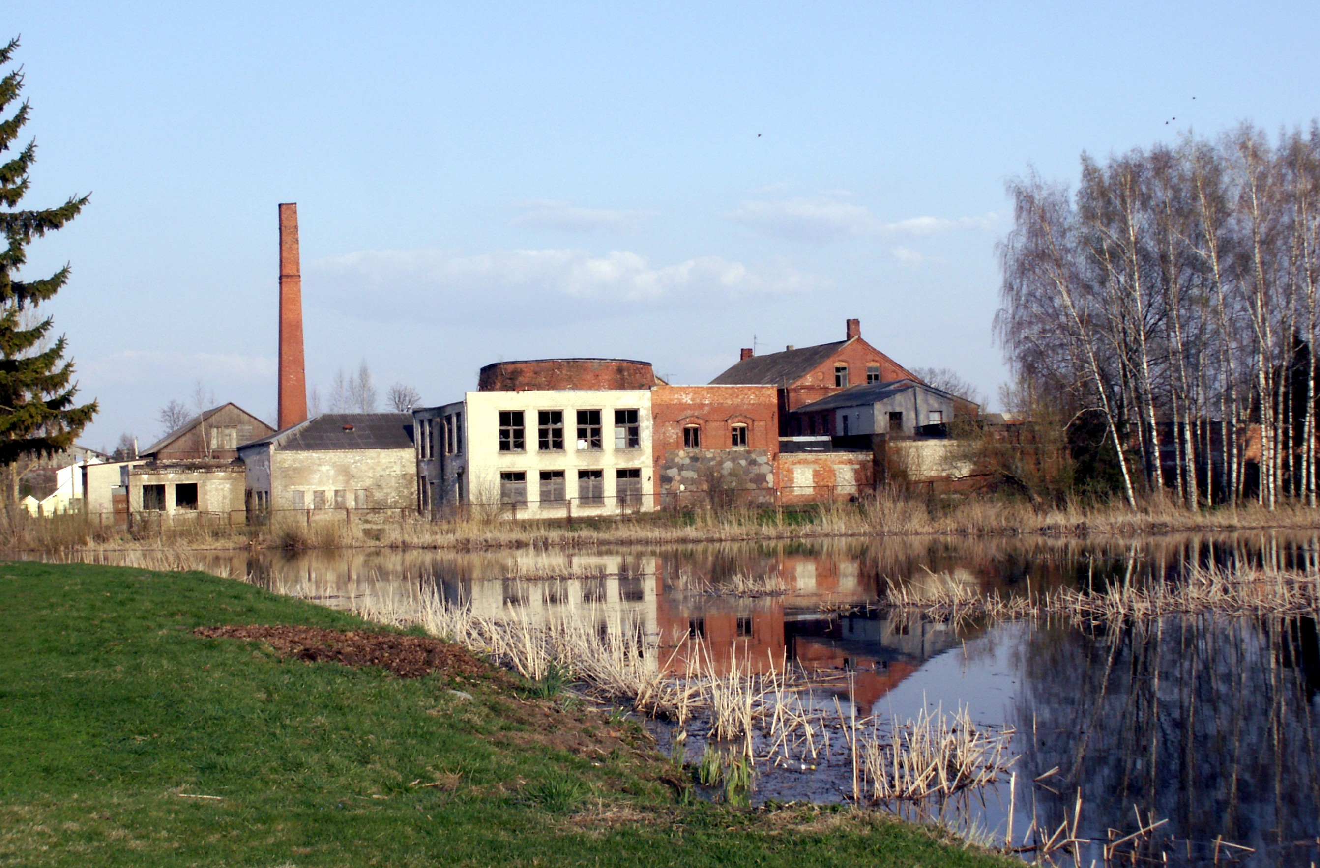 Former mill in Biržai, Biržai district, Lithuania